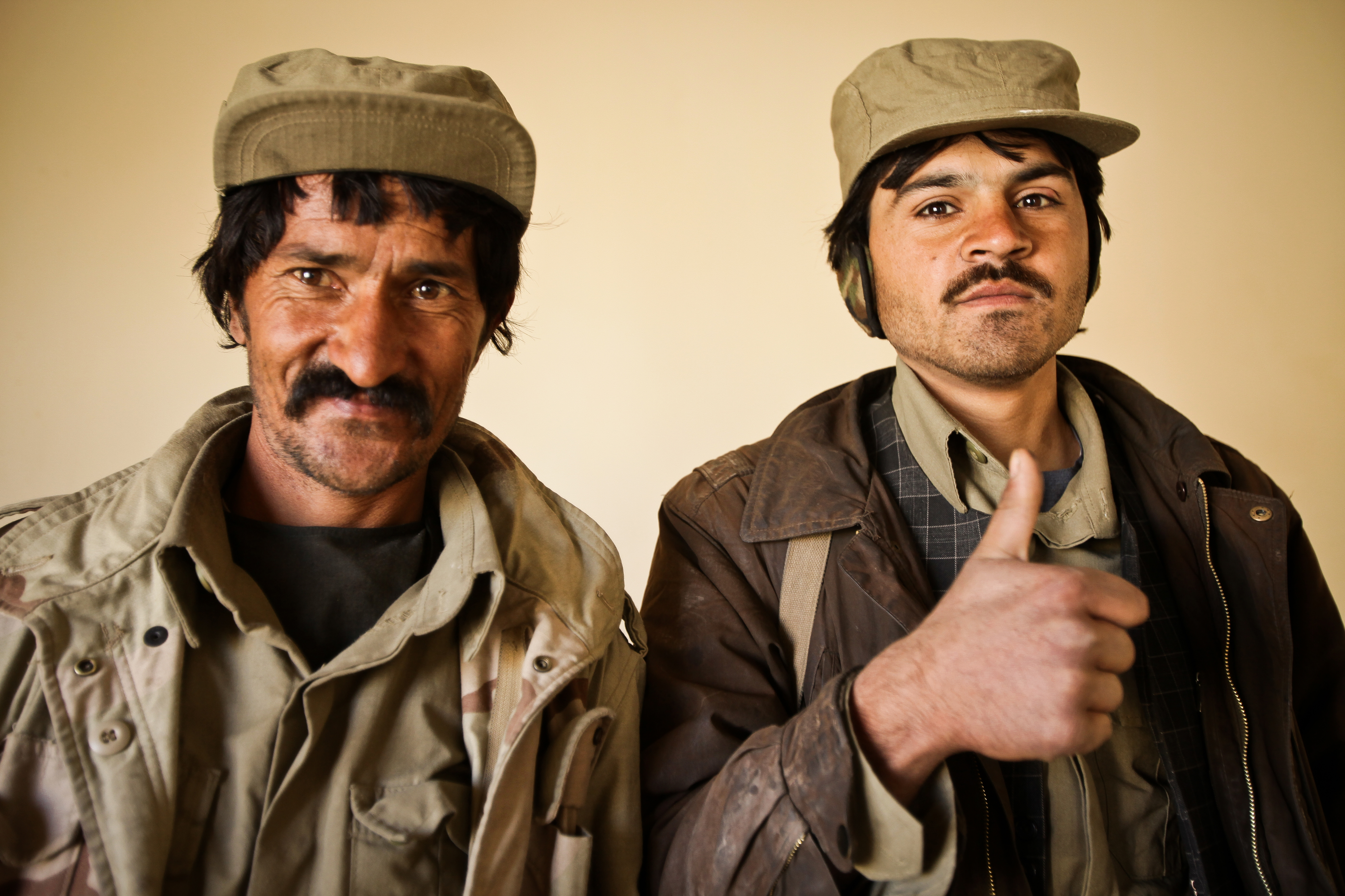 Two members of the Afghan Local Police provide the appropriate reaction after being paid for the previous month’s work at the Pan Kalay Police Station in Nahr-e-Saraj District, Feb. 3. Pay agents from Regional Command Southwest’s Afghan National Security Force Development Team recently travelled throughout Helmand province to pay members of the Afghan Local Police.